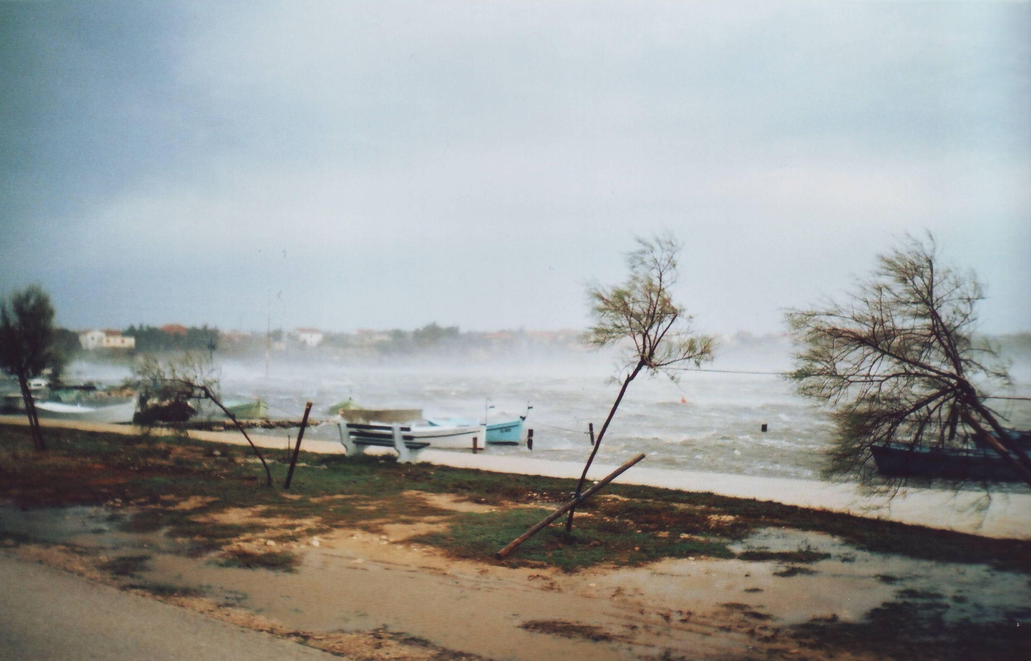 Orkan wind in Nin, bended trees and troubled sea.